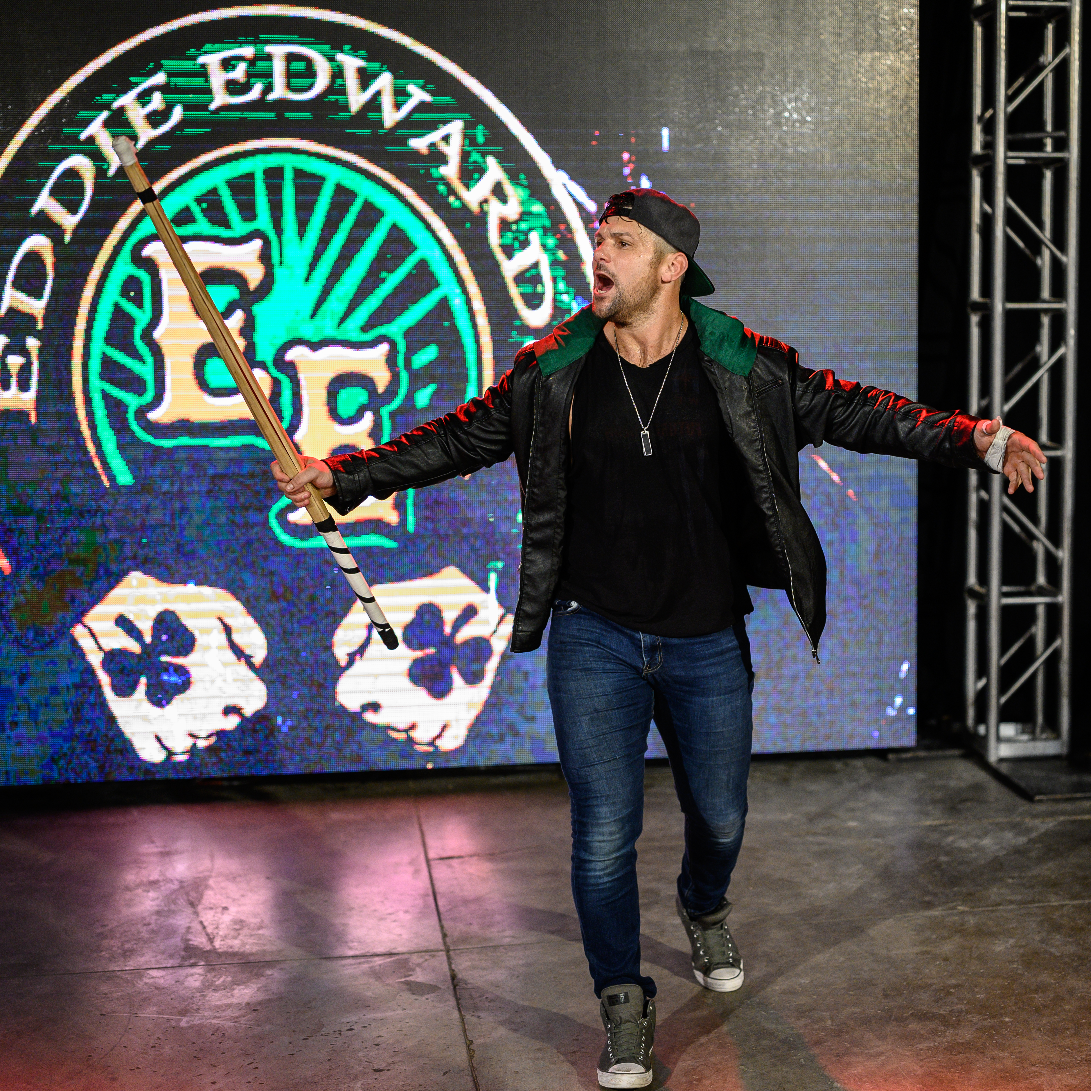 RCW & IMPACT Wrestling present Bash at the Brewery on July 5, 2019. Aired on IMPACT Twitch and IMPACT Plus from Freetail Brewery in San Antonio.